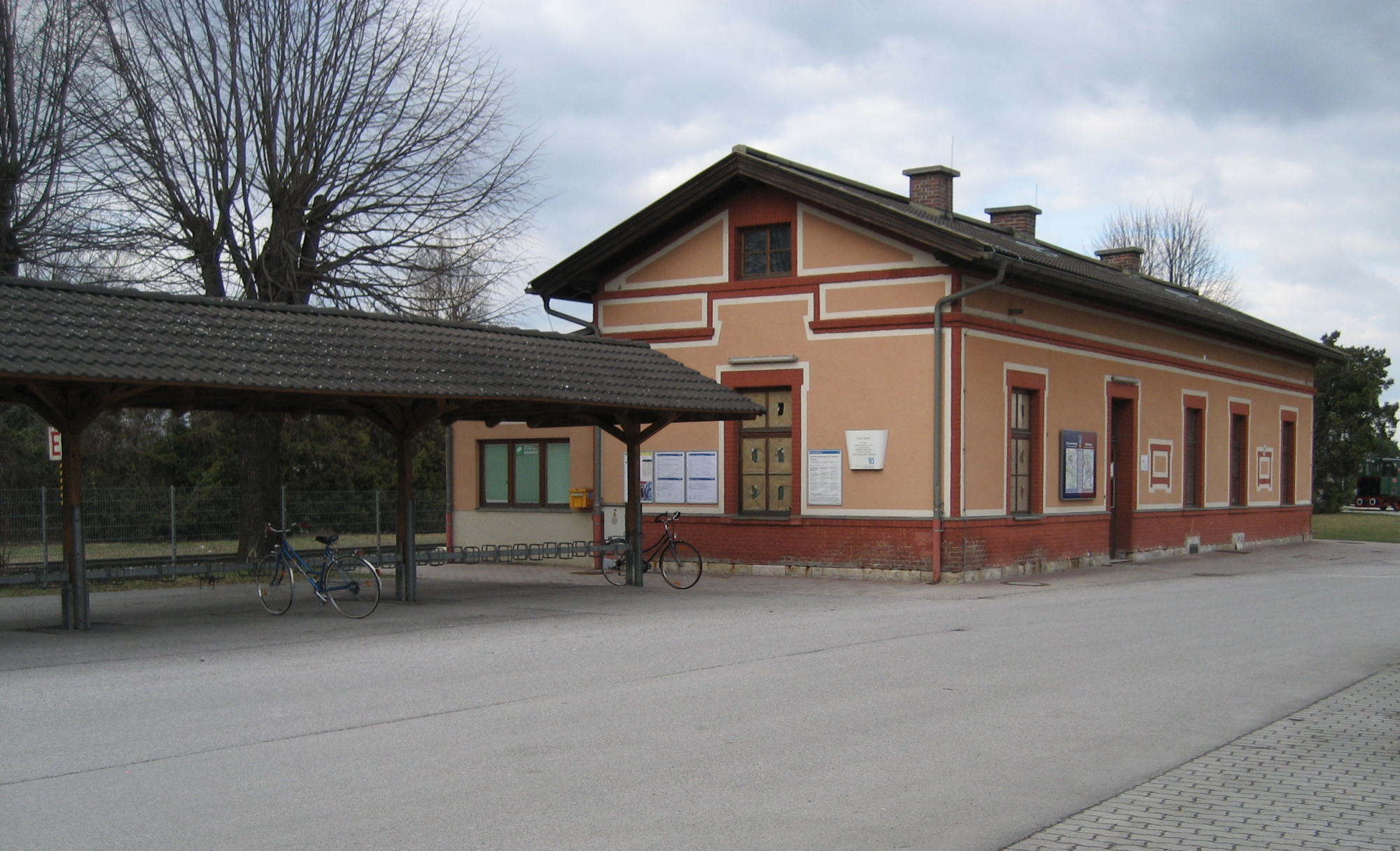 Bad Erlach train station in Lower Austria